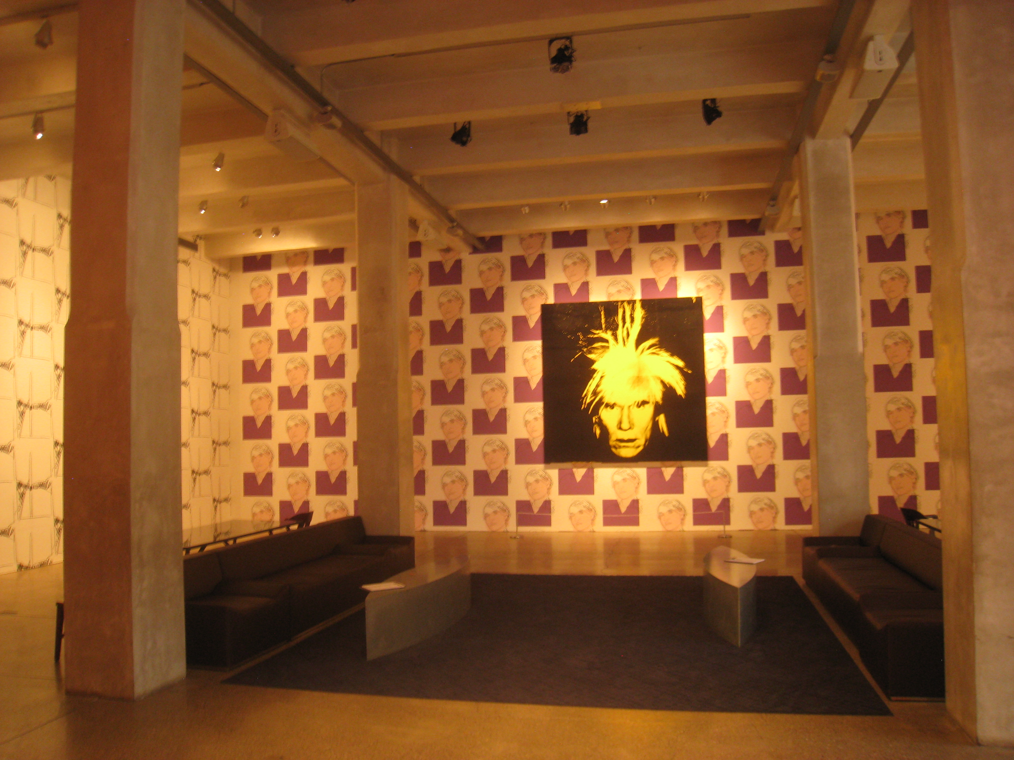 Interior of the Andy Warhol Museum — at 117 Sandusky Street, Pittsburgh, Pennsylvania, USA. Photography was permitted without restriction in the area where this photograph was taken.